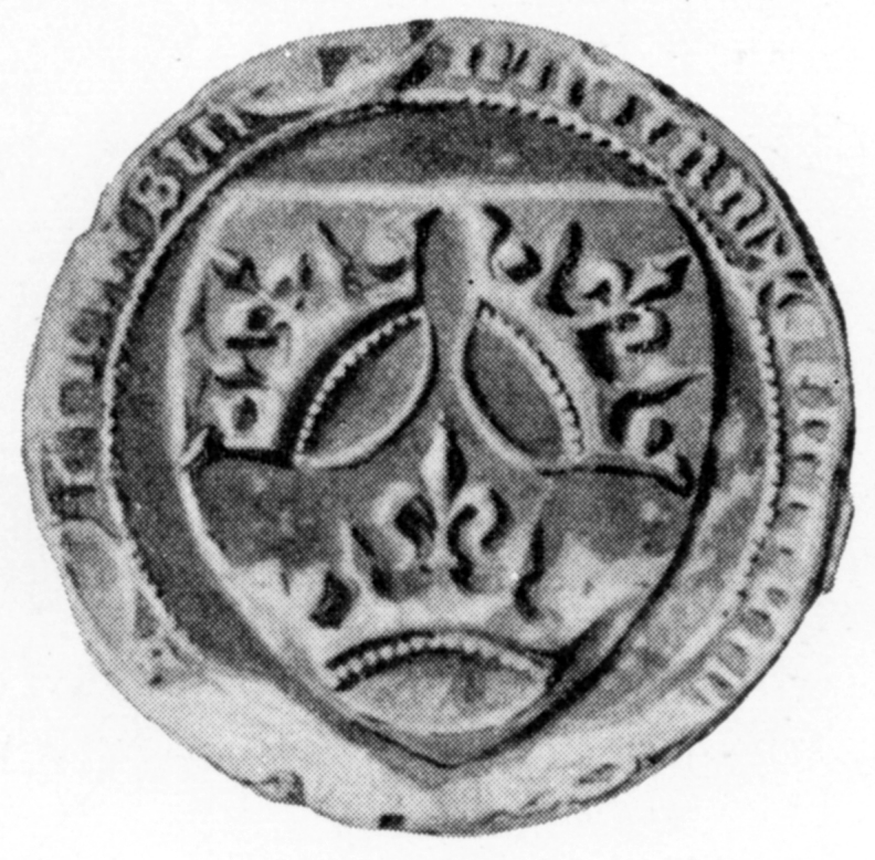 Privy seal (sigilum secretum) of Danish, Norwegian and Swedish Queen Margrethe I. This seal is known from documents dating 1391-1393.